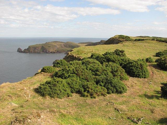 Tun Law. The summit area on the edge of the long drop to the sea. St Abb's Head beyond. This is within the ramparts of a hill fort